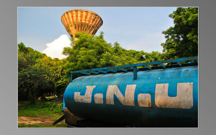 This is an image of the Jawaharlal Nehru University in New Delhi, India.